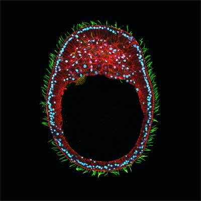 Confocal image of an embryo of the cnidarian Clytia hemisphaerica fixed during gastrulation, showing cell boundaries (red), nuclei (blue), and cilia (green).